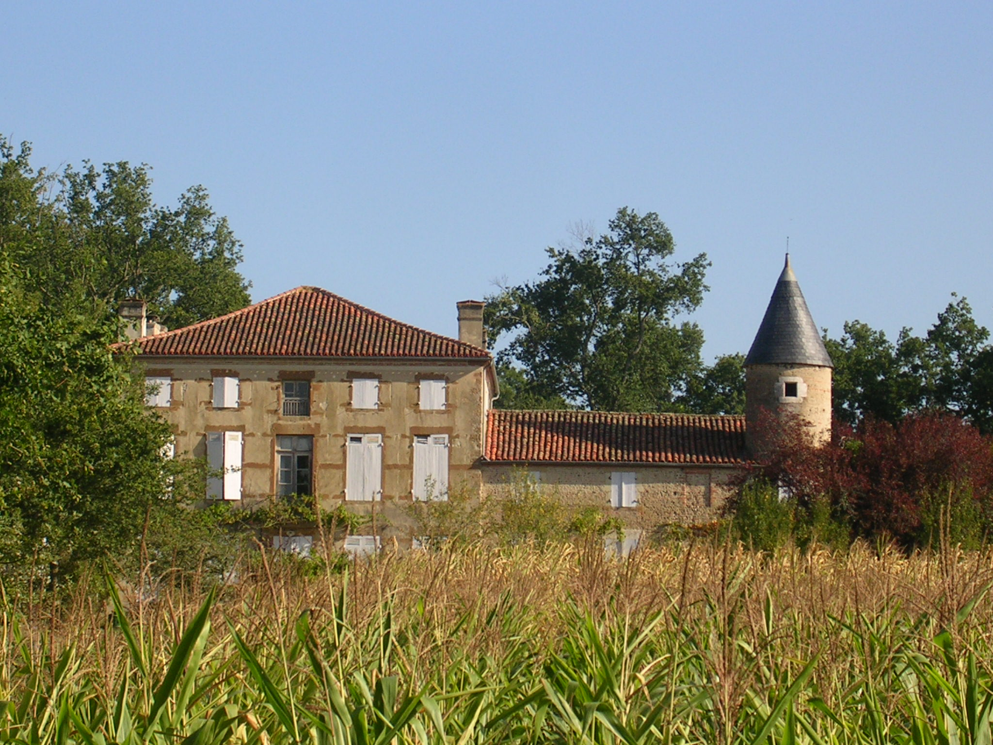 Château de Lobit, sur la commune de Saint-Maurice-sur-Adour, dans le département français des Landes